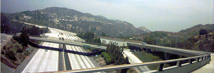 The Glendale Freeway (Highway 2), as photographed on July 7, 2004 from the transition ramp that connects the eastbound Ventura Freeway (Highway 134) to the northbound Glendale Freeway. The diamond interchange in the foreground is for Holly Drive/Mt. Carmel Drive. In newer (post-1960s) freeways, where it is necessary to have an interchange with surface streets very close to a freeway-to-freeway interchange, Caltrans will often extend the access ramps for the freeway-to-freeway stack interchange over the street interchange. That is what is going on here. Another well-known example is the Story Road interchange with U.S. Highway 101 in San Jose, which sits under the ramps to and from the interchange with Interstate 280. In such freeway-to-freeway stack interchanges, the ramps for diagonal movements between freeways can easily be more than a mile long (like the one visible here). Photographed and uploaded by user Coolcaesar Category:Images of California